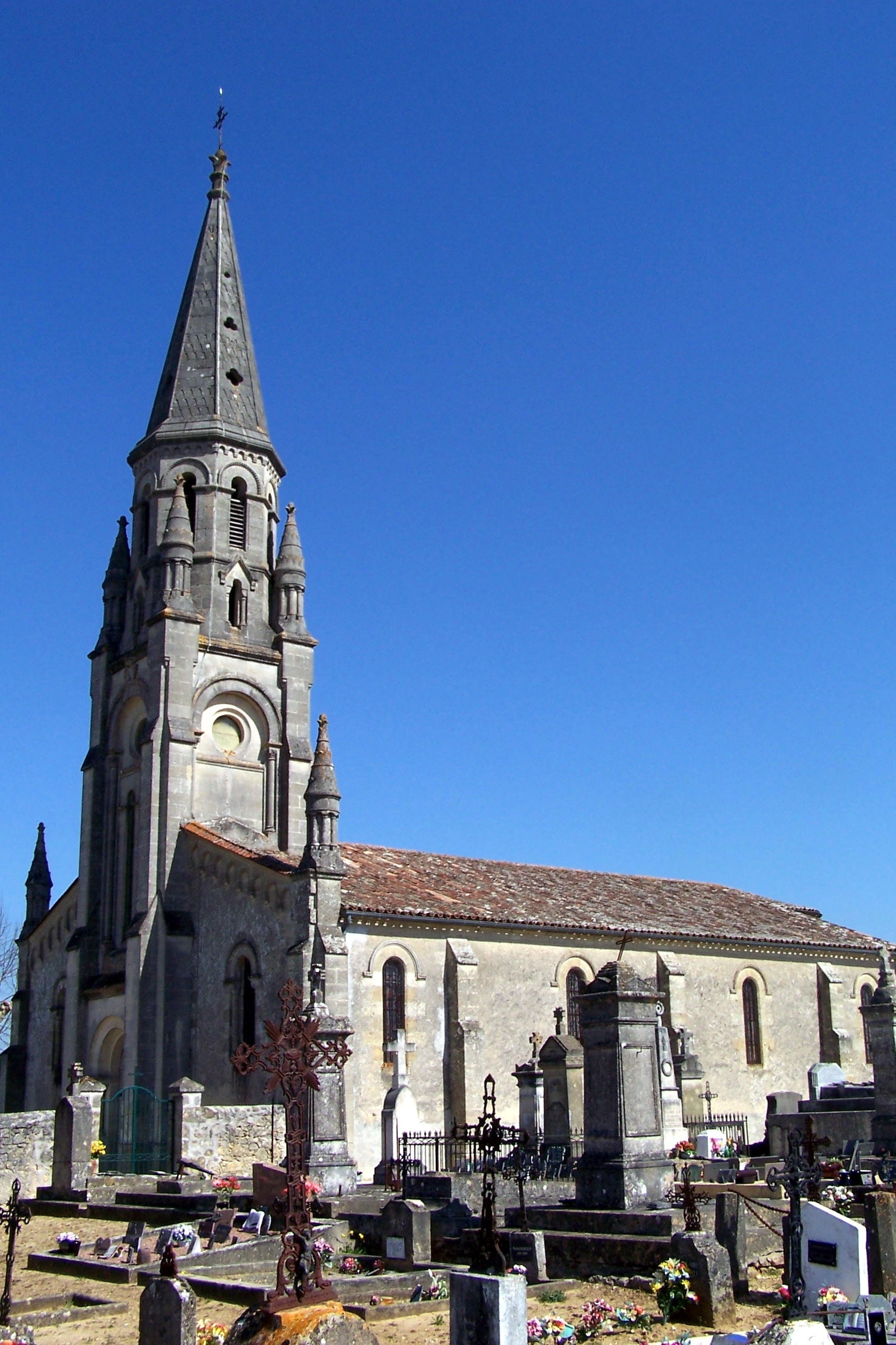 Church Saint-Martin of Bommes (Gironde, France)